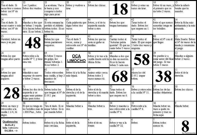 Ocalimocho_board